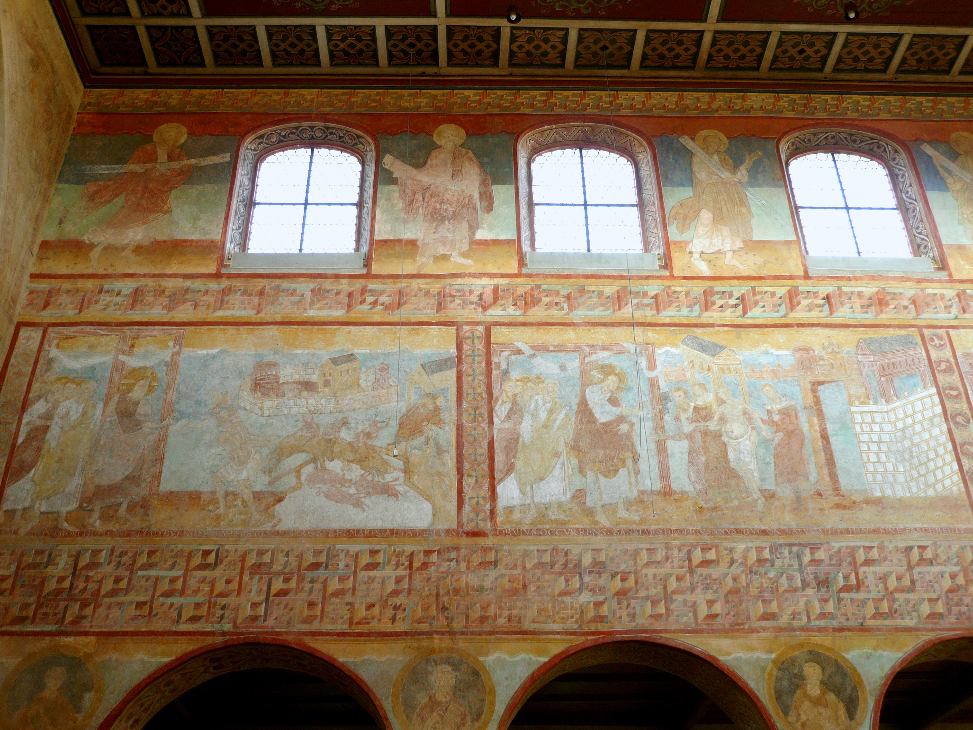 Paintings on the North side of the church at Oberzell, Reichenau